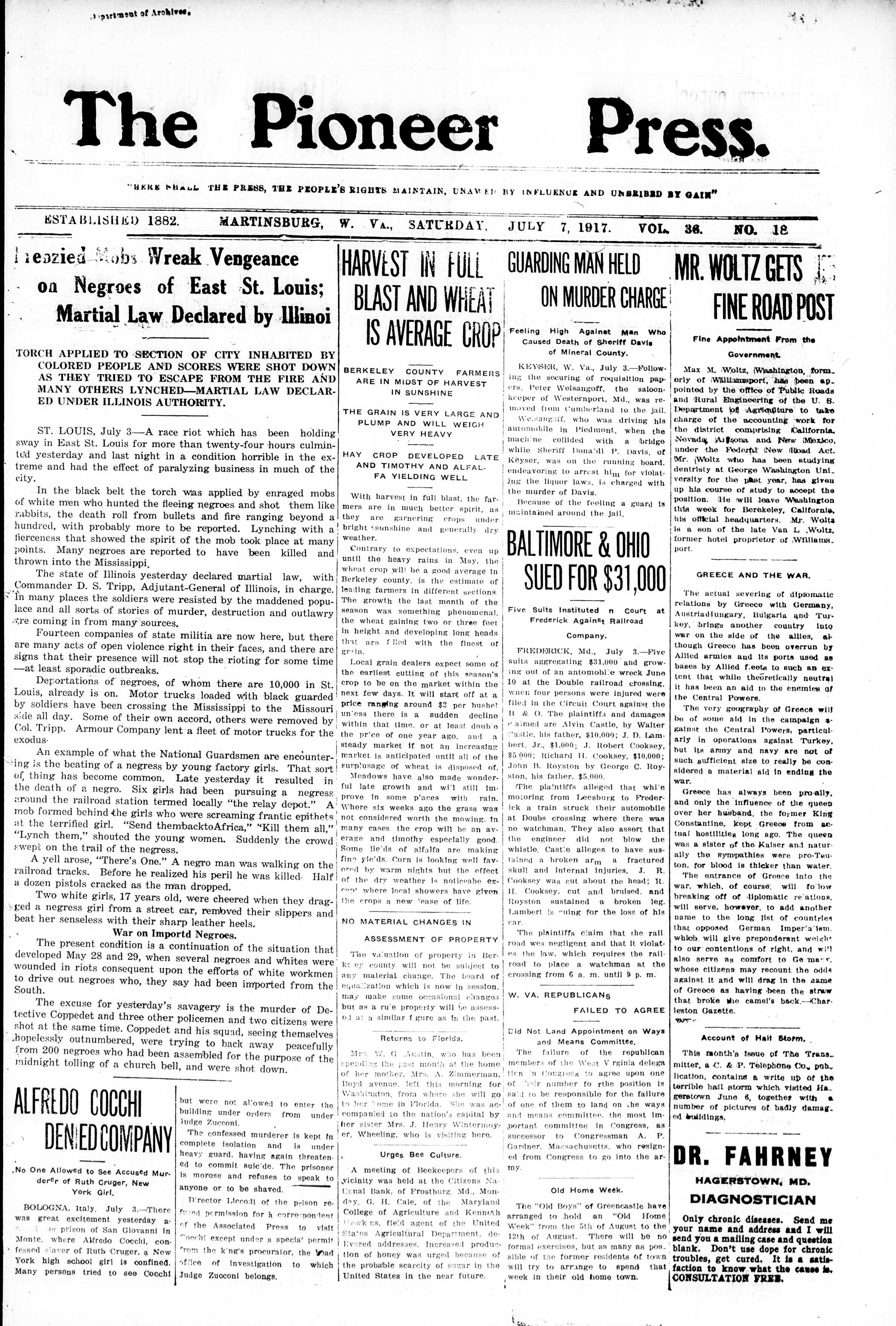 Front page of the Martinsburg Pioneer Press, the first African-American newspaper in West Virginia, from July 7, 1917. Left two columns are devoted to the white supremacist riots in East St. Louis, Illinois. The newspaper was published by J.R. Clifford (1848–1933), who was also the state's first African-American attorney.